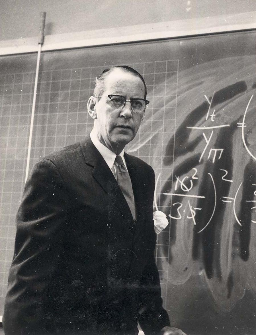 Former army major, mathematics teacher Agnar O. P. StradbergPlace: Mörbyskolan, Danderys, Sweden